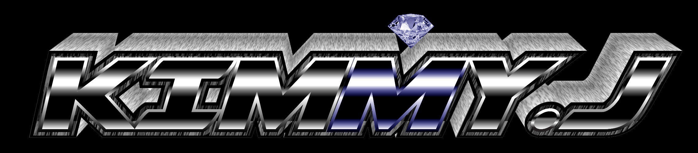 KIMMY.J M